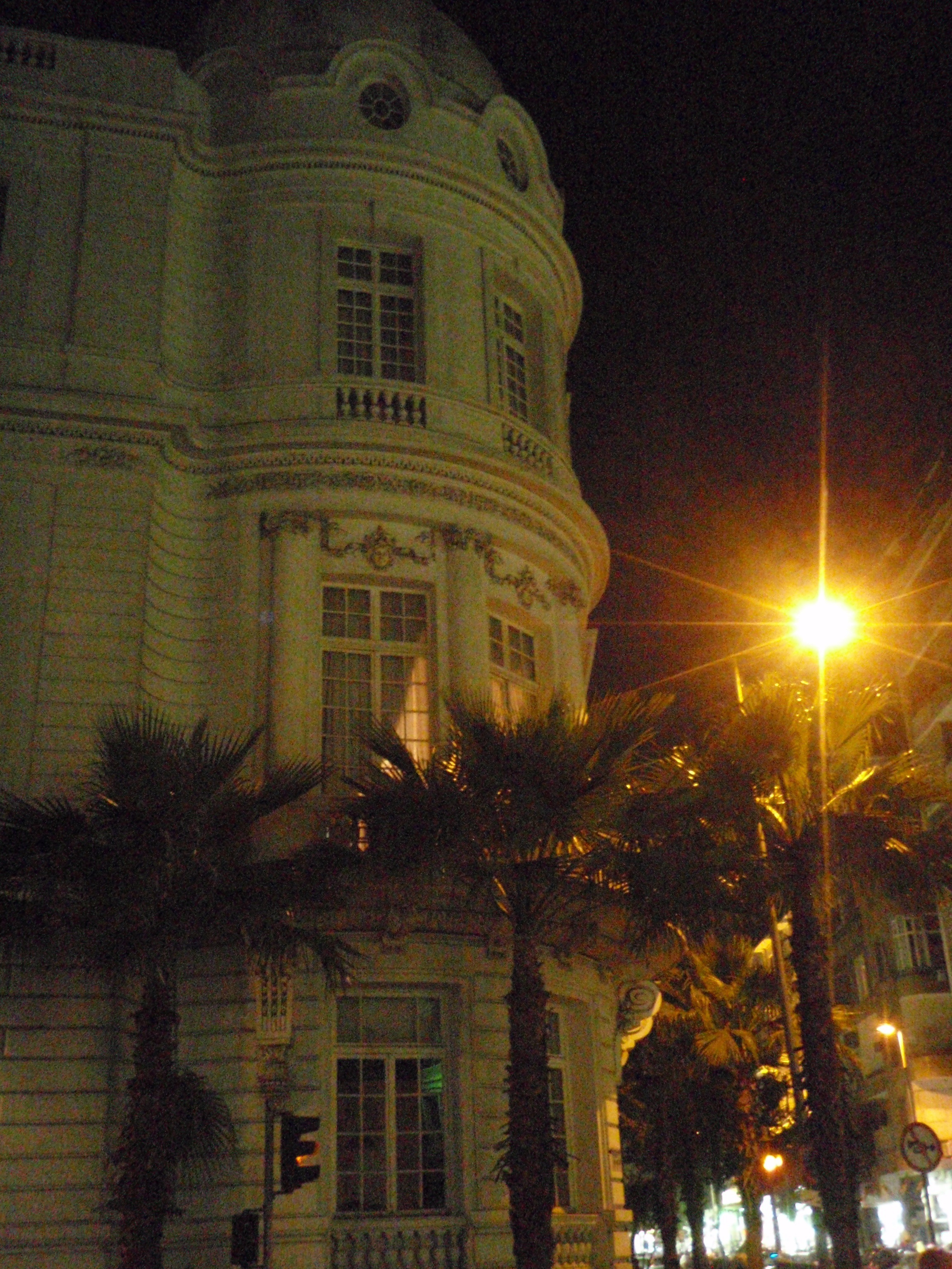 Egyptian diplomatic club at night